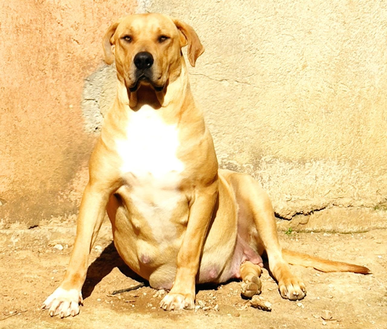 Bullmastiff Brasileiro